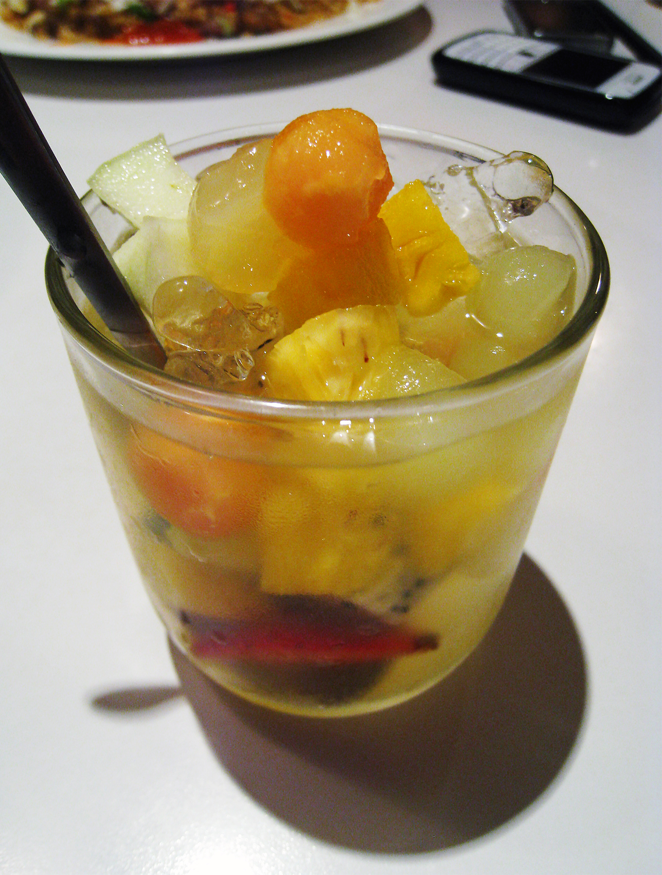 Es buah in a glass; fruit cocktail beverage with fruit bits, jelly, syrup and ice. Fruits includes bits of honeydew (melon), pineapple, papaya, strawberry and dragon fruit. Served in a restaurant in Jakarta, Indonesia.